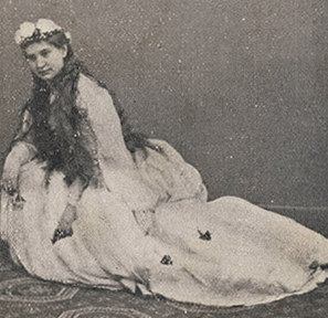 Amleto-1871-Angiolina Ortolani-Tiberini as Ophelia